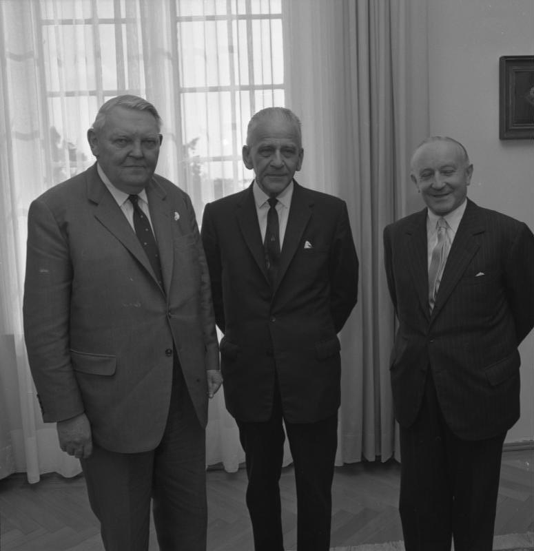 Speaker of the House of Commons of the United Kingdom Horace King (middle) and Chancellor of Germany Ludwig Erhard (left) in Bonn